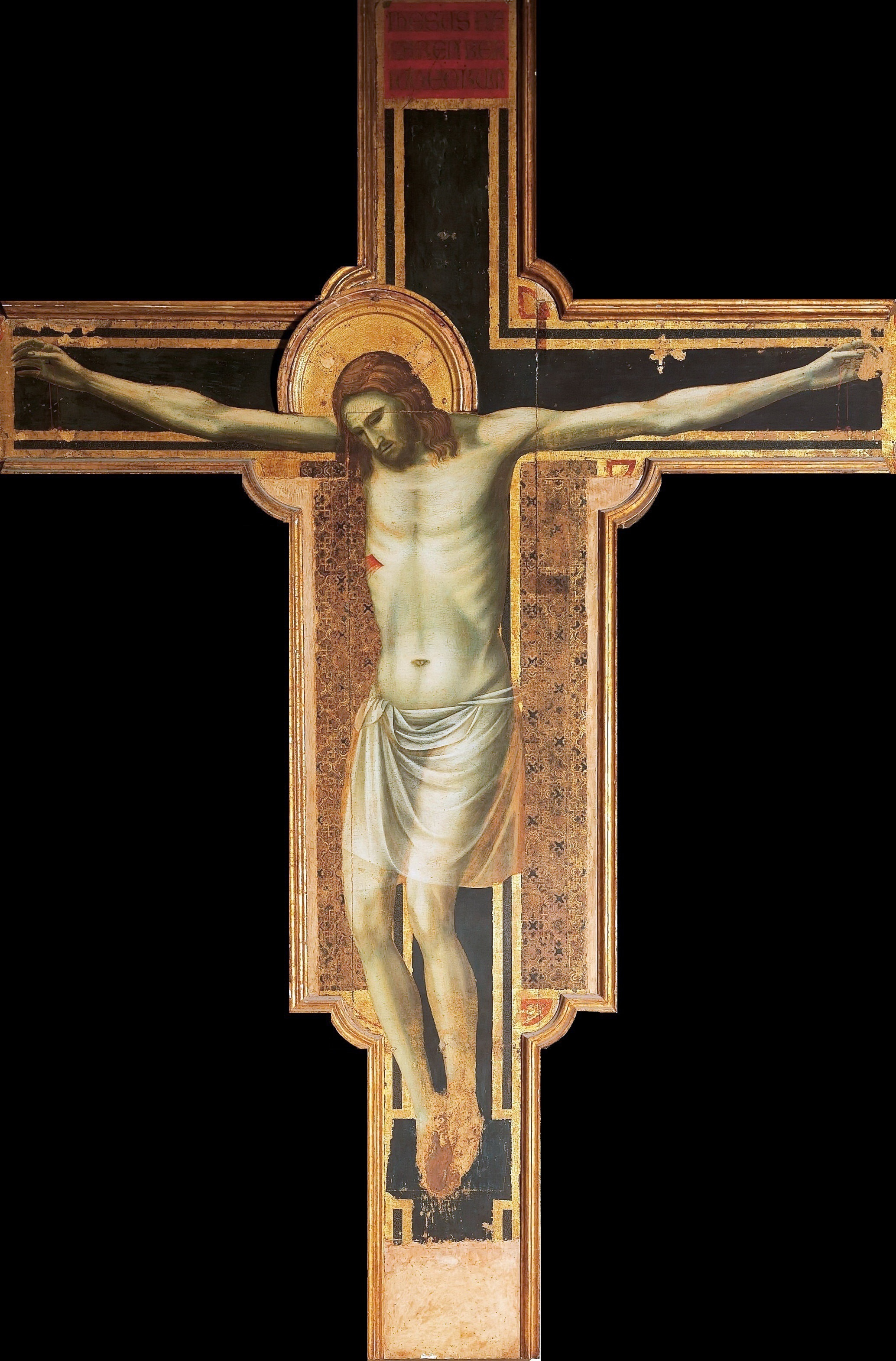 Giotto._the-crucifix-1310-17._430х303_cm._Rimini,_Tempio_Malatestiano